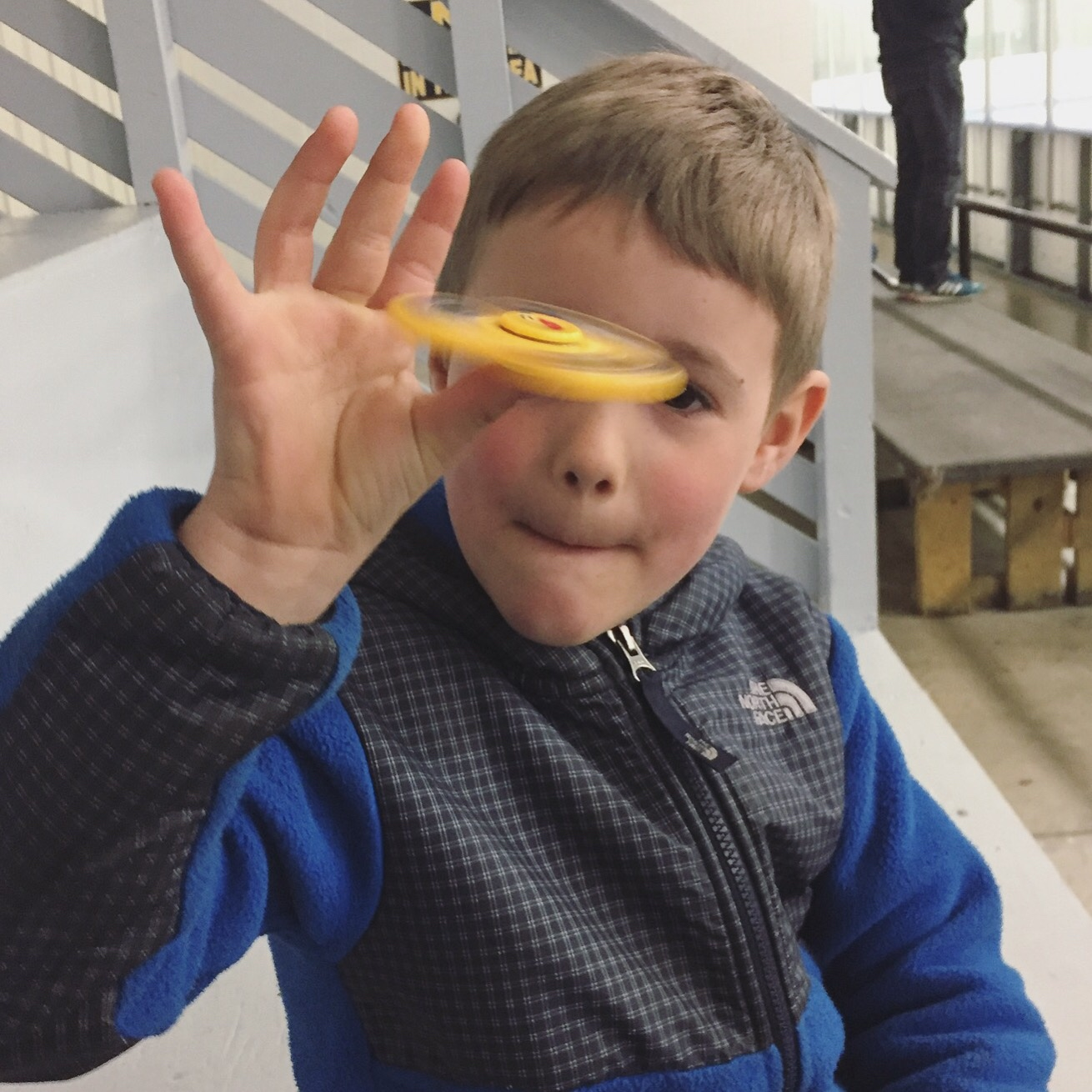 fidget spinners. all the rage at dawes elementary.